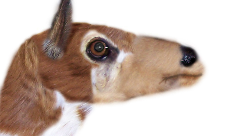 A photomanipulation that shows what the extinct camelid Poebrotherium looked like in life. This images was created in Photoshop Elements 2.0 from photographs that I had taken myself of extant mammals, composited over a reconstruction of the skull of Poebrotherium.